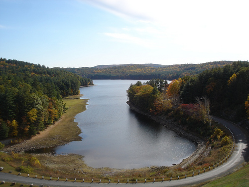 View of Farmington River from top of Saville Dam, facing south.